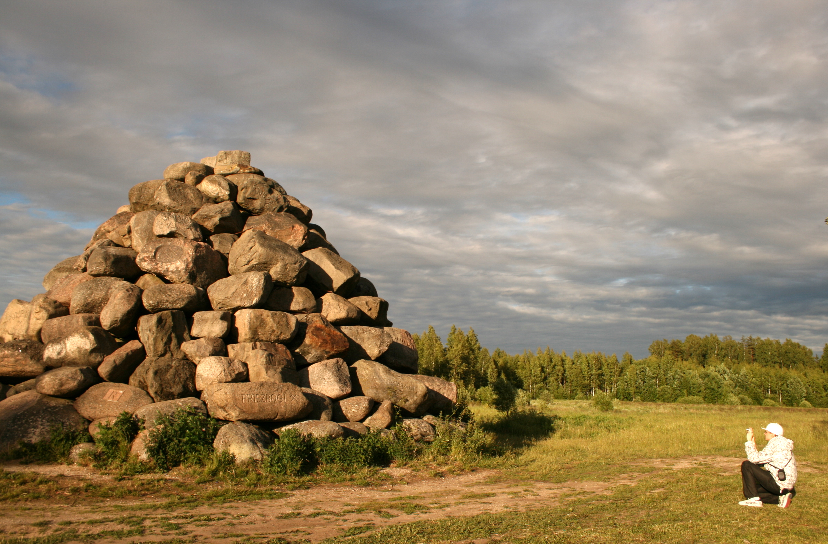 Valpenes Pyramid in Krišjānis Barons memory.